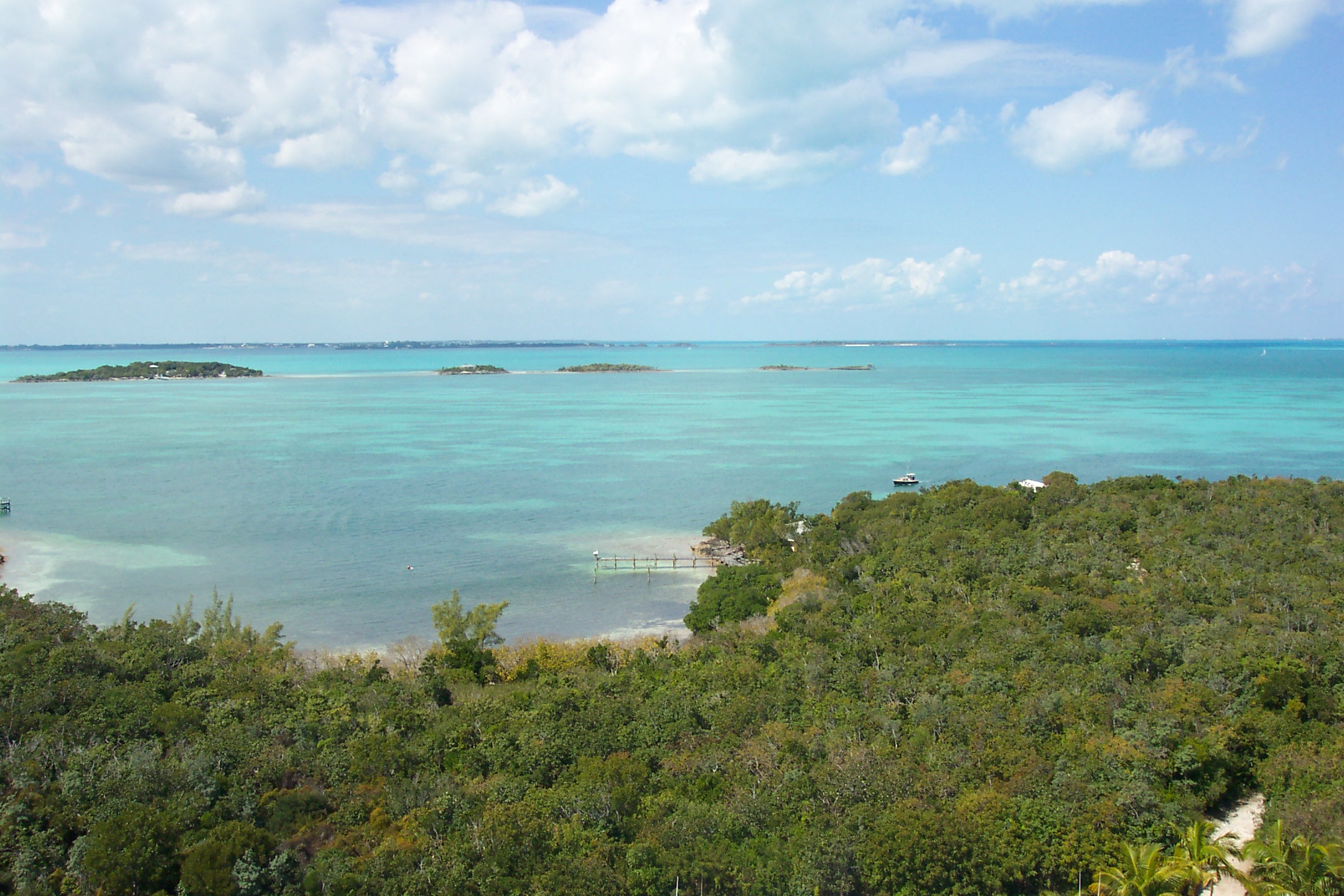 View facing west from the Hope Town Lighthouse on Elbow Cay in the Abaco Islands, Bahamas. All but one of the Parrot Cays are seen in the turquoise Sea of Abaco, with the eastern shore of Great Abaco Island visible along the horizon. Note: The above description is by the uploader, Lithium6ion, and has not been endorsed by the author.